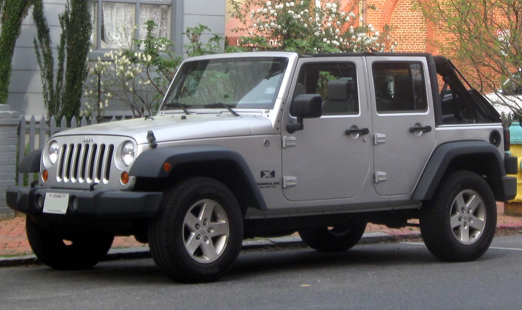 2007-2009 Jeep Wrangler Unlimited photographed in Annapolis, Maryland, USA.